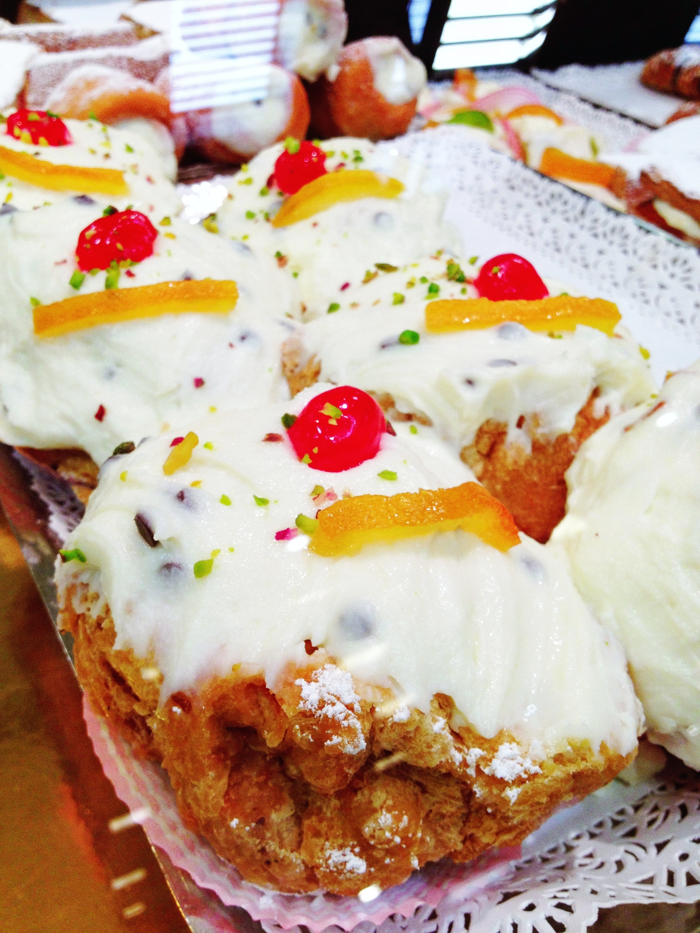 Sfincie di Saint Joseph